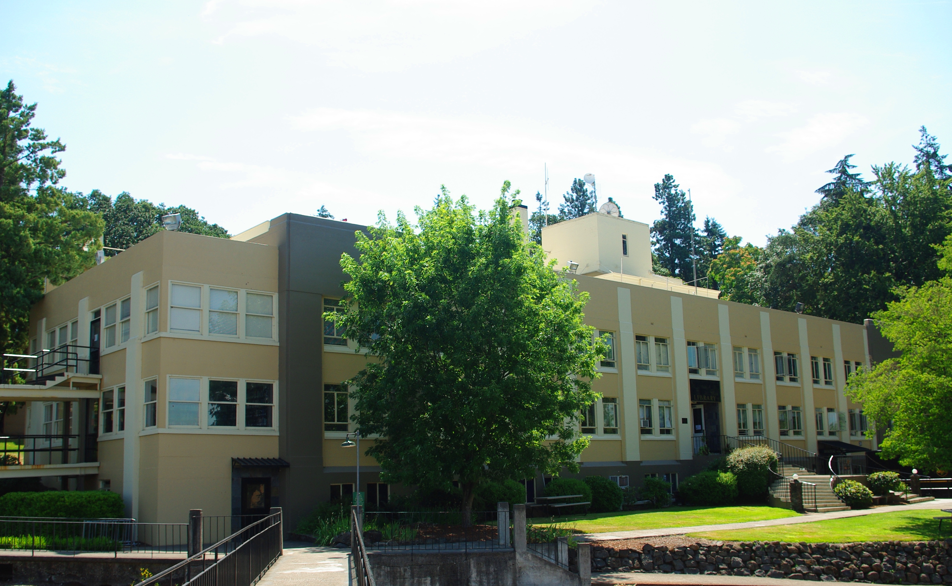 Library at Corban College, includes the Prewitt-Allen Archaeological Museum at Corban College in Salem, Oregon, USA.